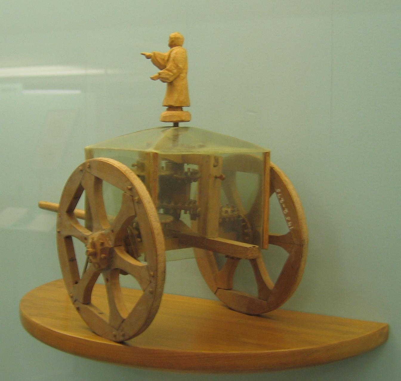 Model of a Chinese South Pointing Chariot, an early navigational device using a differential gear.